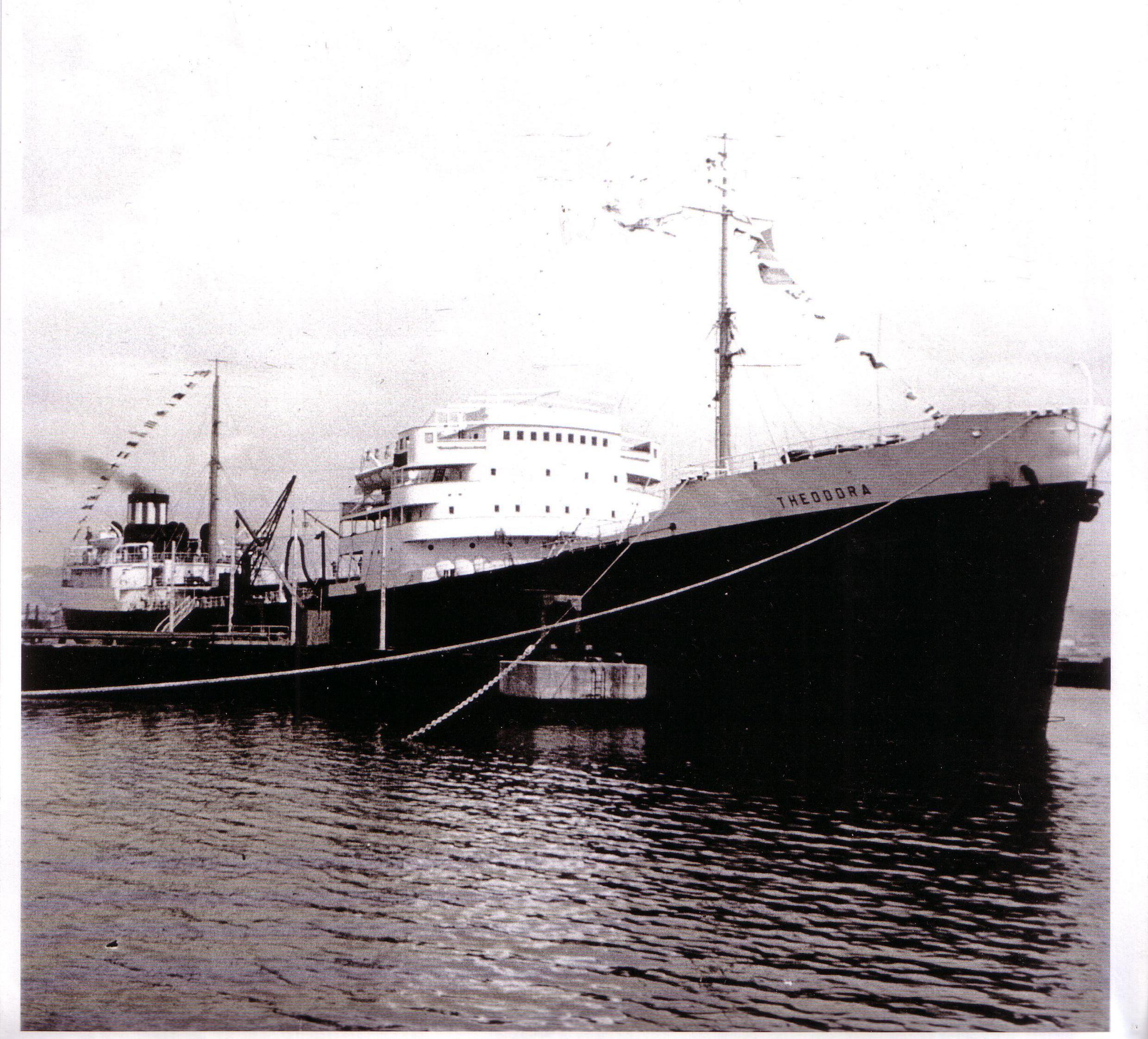 Tanker Théodora in 1949